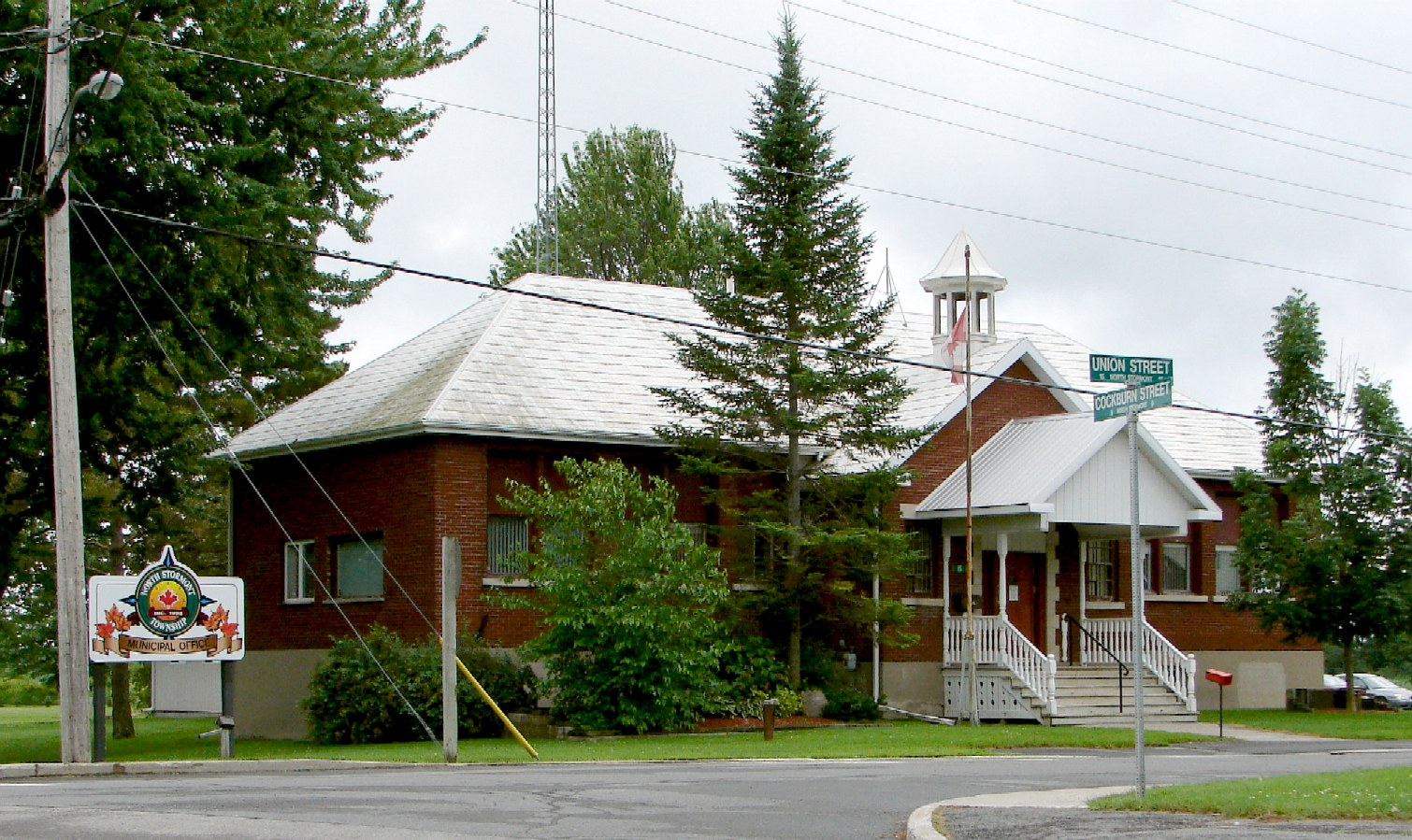 Municipal offices of North Stormont Township, Ontario, Canada